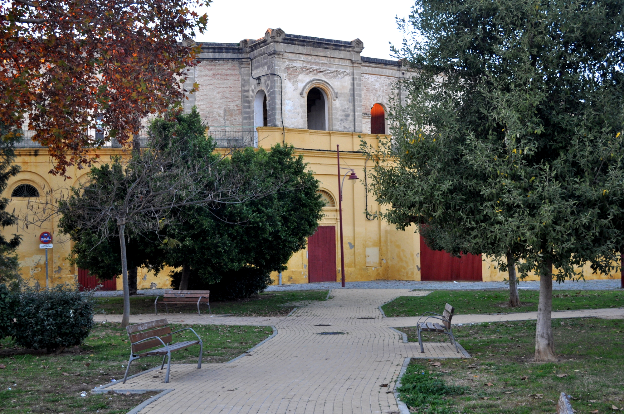 Bullring, back patio, Jerez de la Frontera